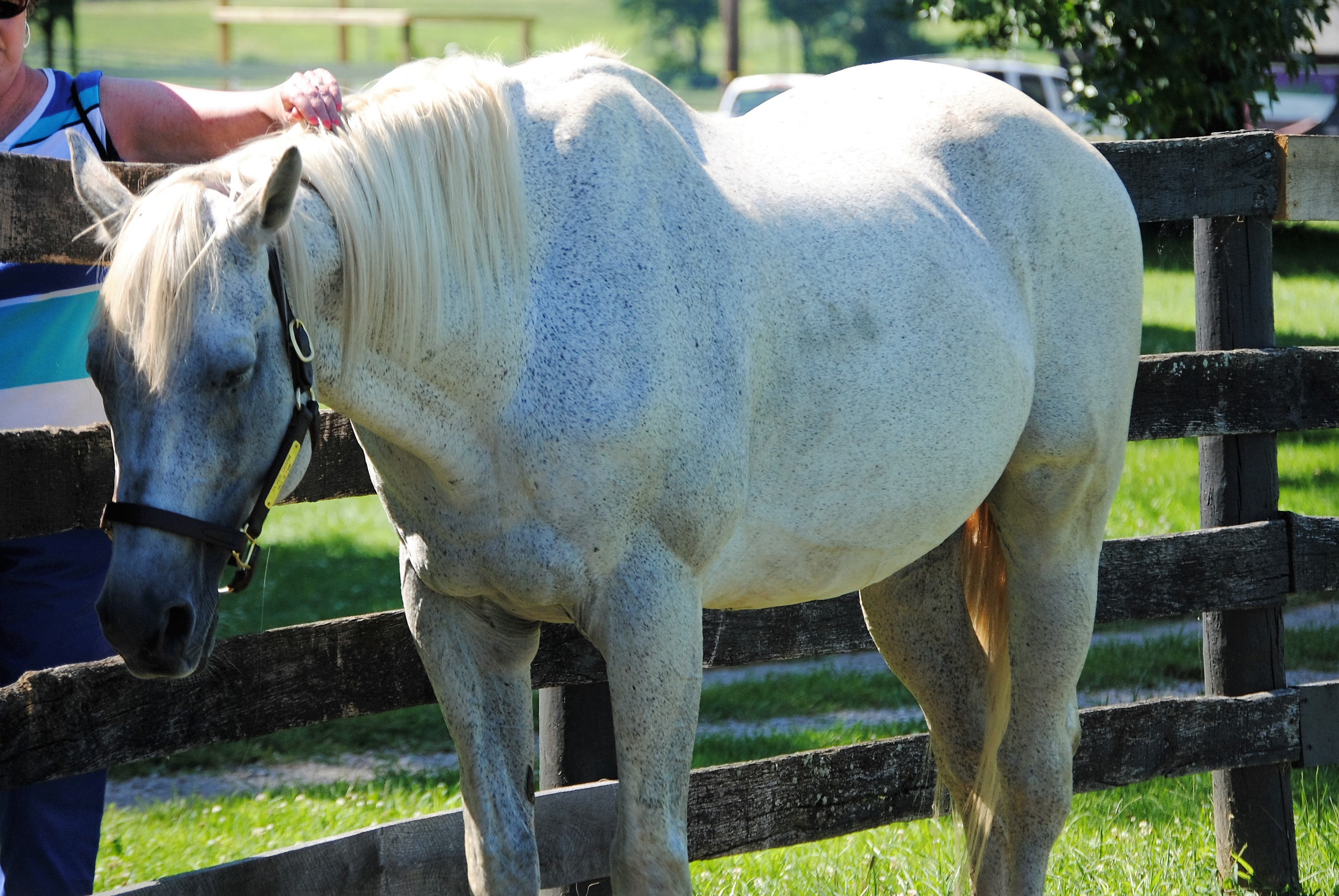 Silver Charm in retirement at Old Friends Equine in 2015